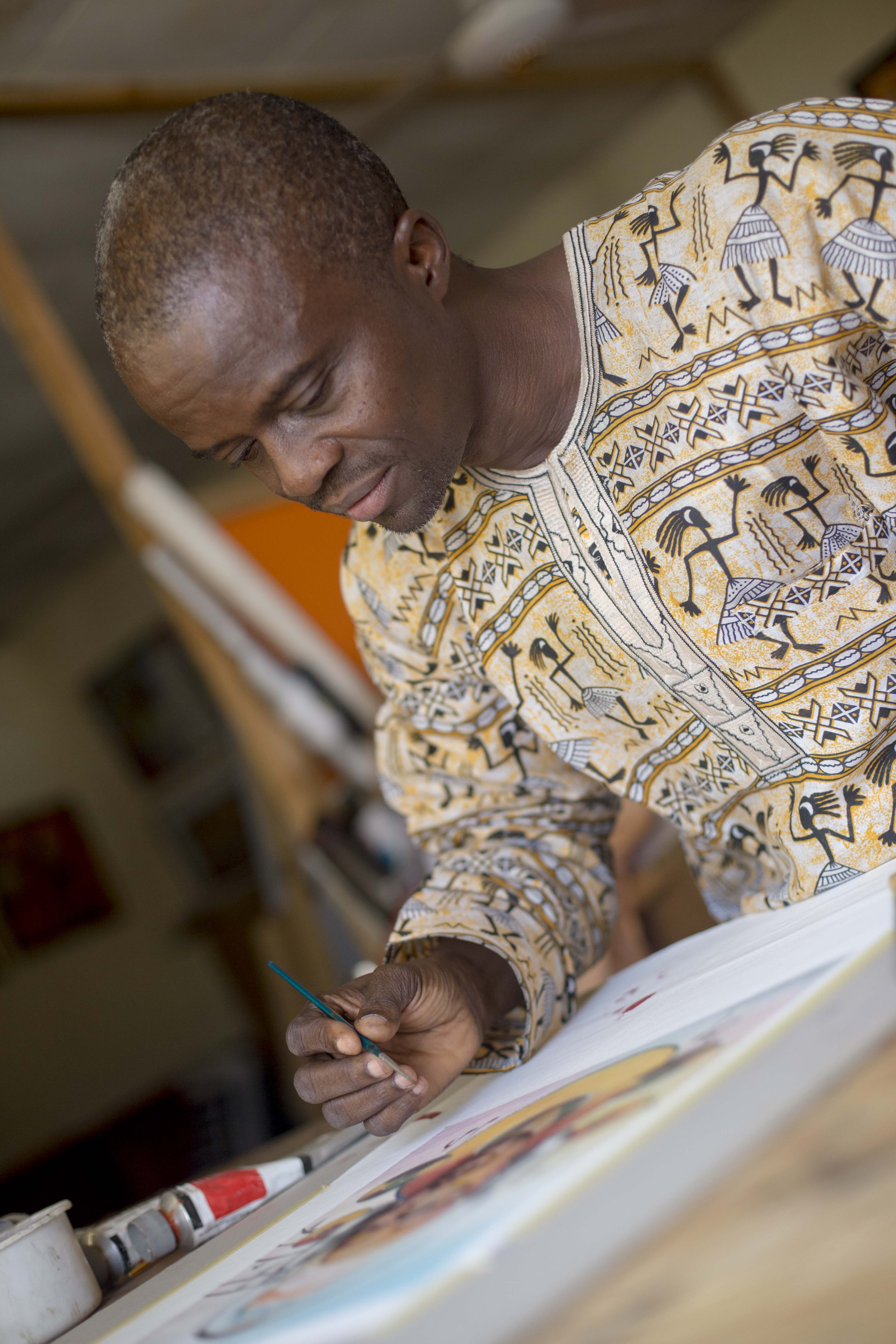 Lemi Ghariokwu in his studio. Photography by Emmanuel Komolafe.